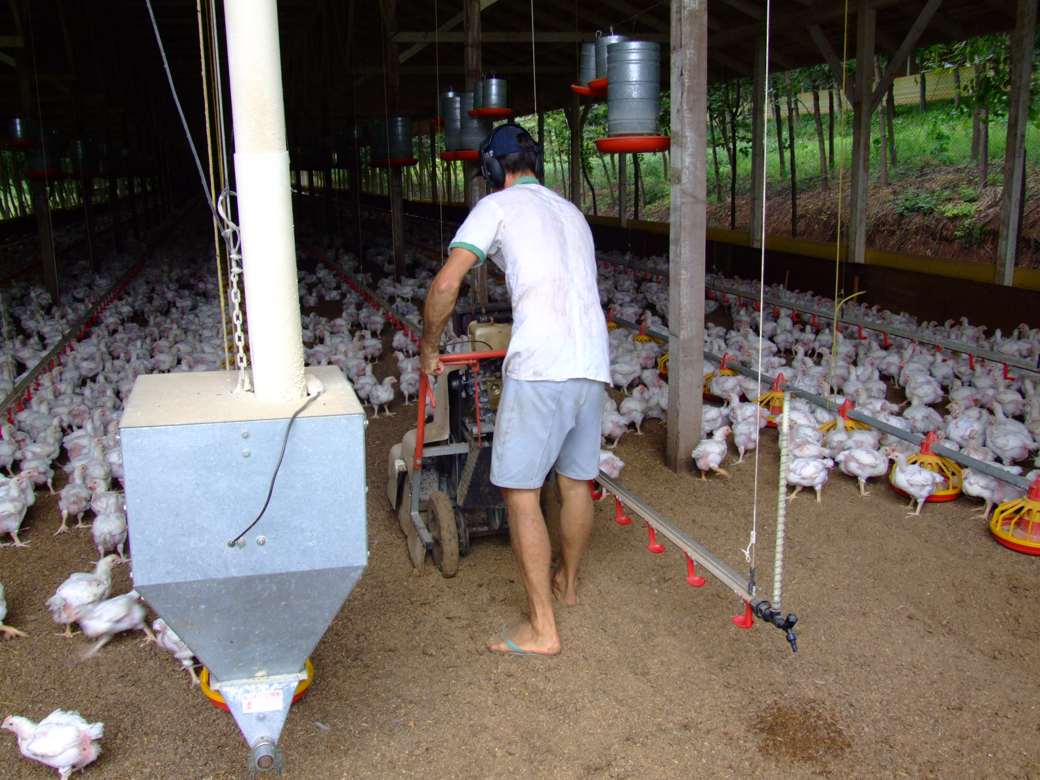 Poultry farmer activity in the municipality of Campos Novos, Santa Catarina, Brazil.